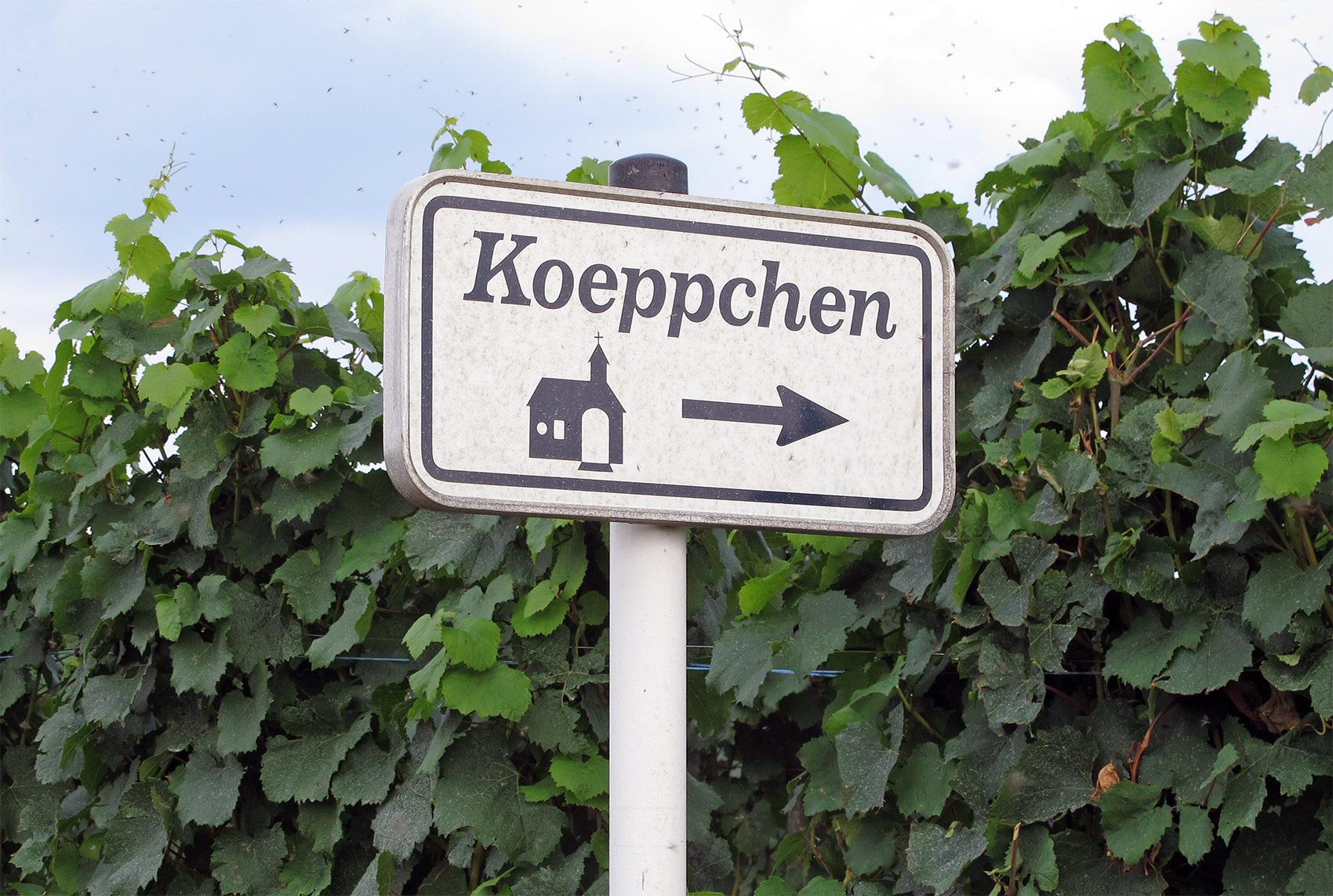 Waysign to the St. Donatus chapel on the Koeppchen near Wormeldange, Luxembourg